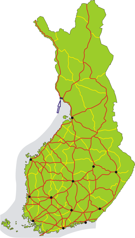 Map of the main road (highway) 29 in Finland, shown in dark blue. The other 1st class main roads (numbers 1–29) are red, 2nd class main roads (numbers 40–98) yellow. Black dots show the 12 biggest urban areas.